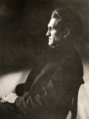 Portrait of Stefan George in 1910